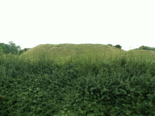 Castle mound of Bytham Castle, Bytham Castle, Lincolnshire, England.